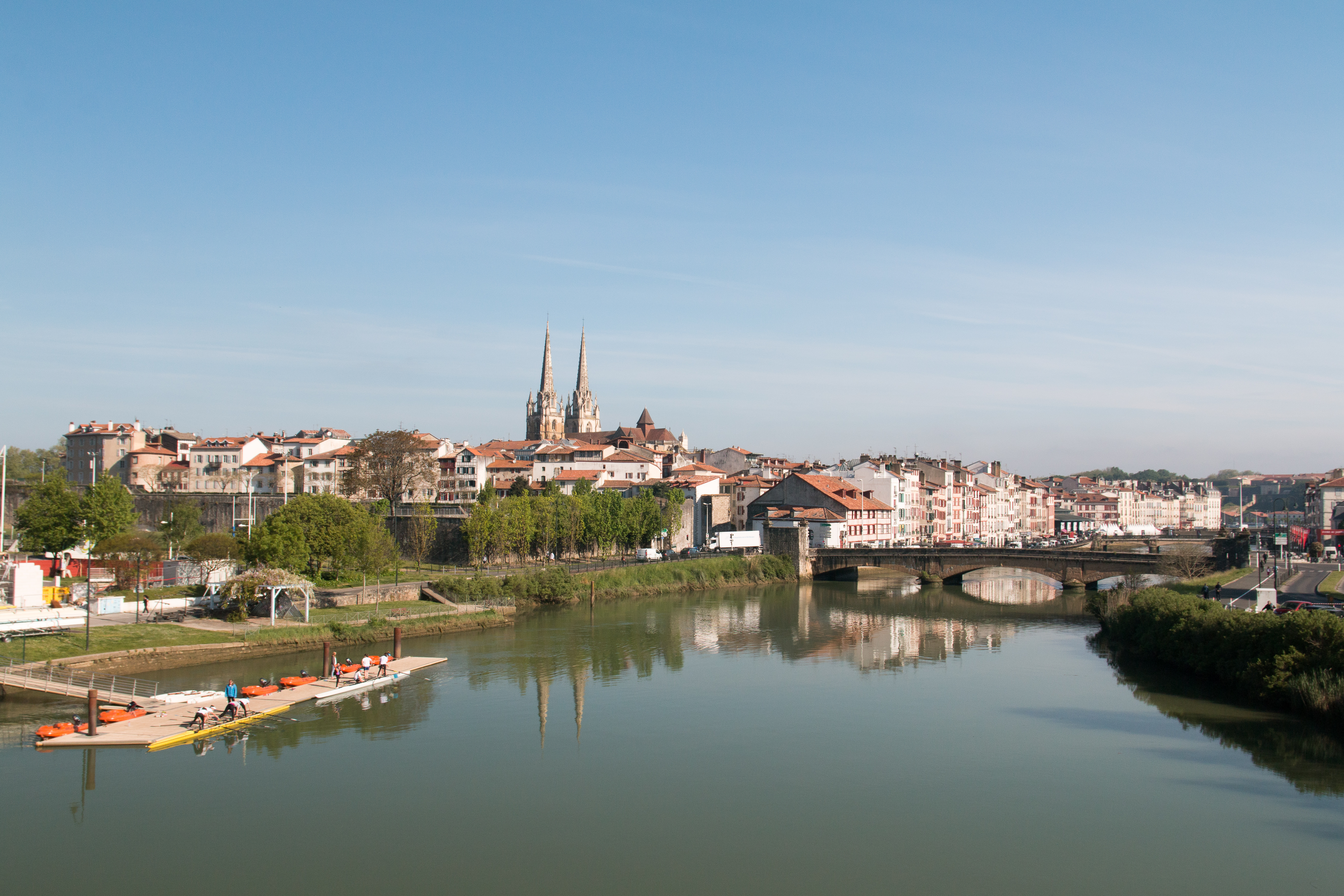 La Nive river, seen from the bridge of the Labourd. The pontoon of the Aviron Bayonnais. At the margin, the works for the extension of the clubhouse. El pontón de Aviron Bayonnais. En el margen, las obras de extensión del clubhouse.